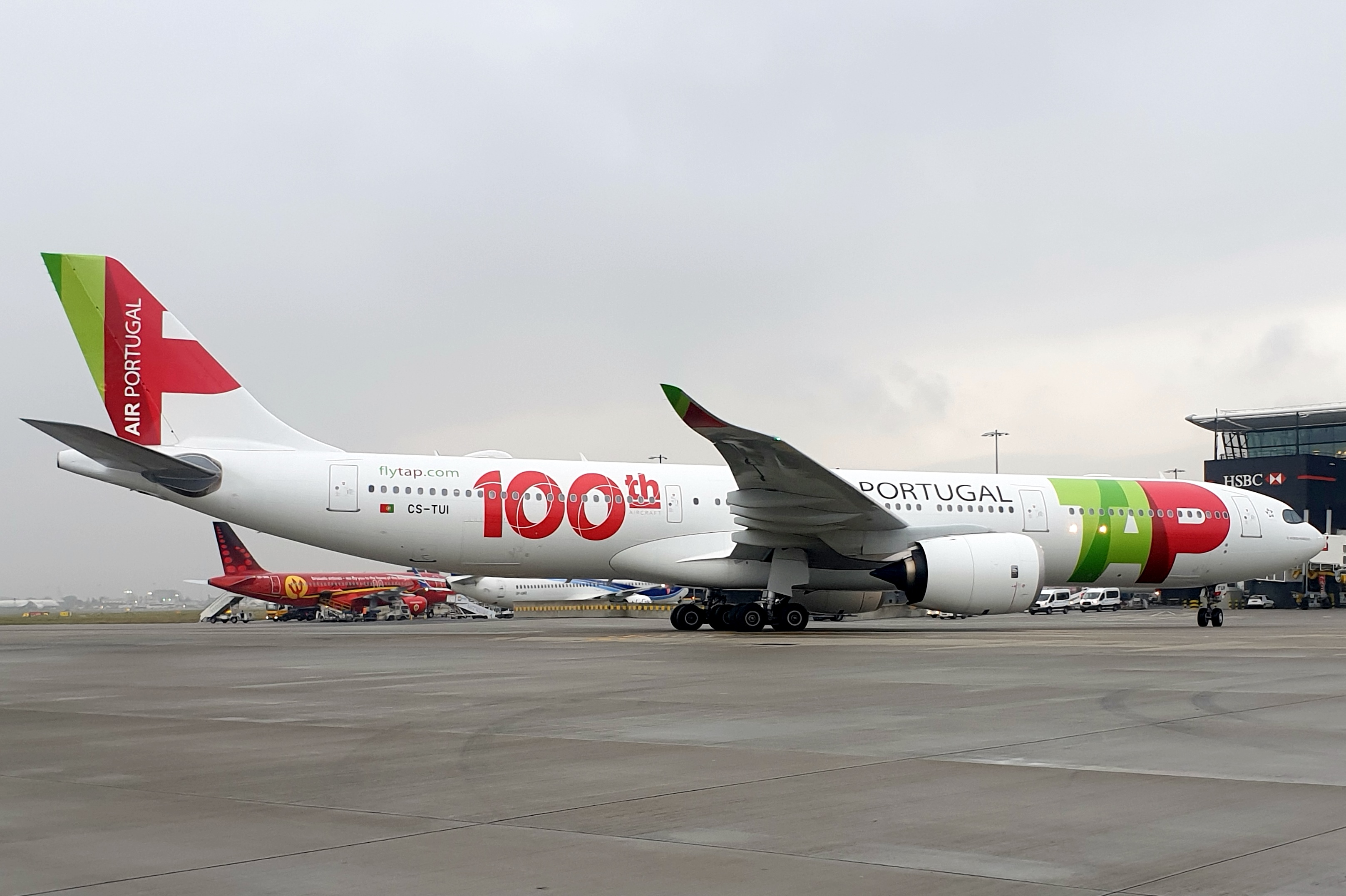 CS-TUI 24102019LHR